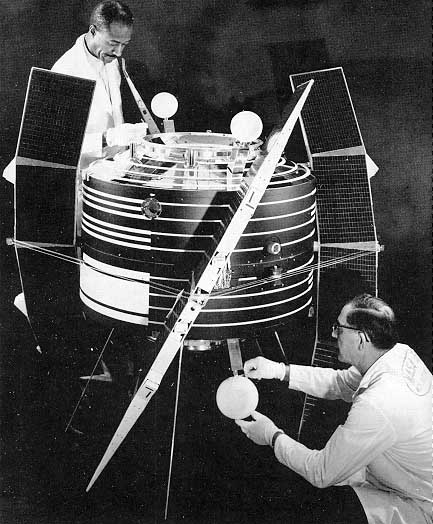 Explorer 38, also known as “Radio Astronomy Explorer 1” Explorer 38, auch bekannte als “Radio Astronomy Explorer 1”